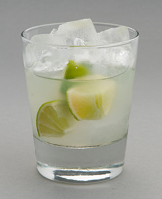 Caipirinha comprised of sugarcane, lime, and cachaca rum over ice in an old fashioned glass